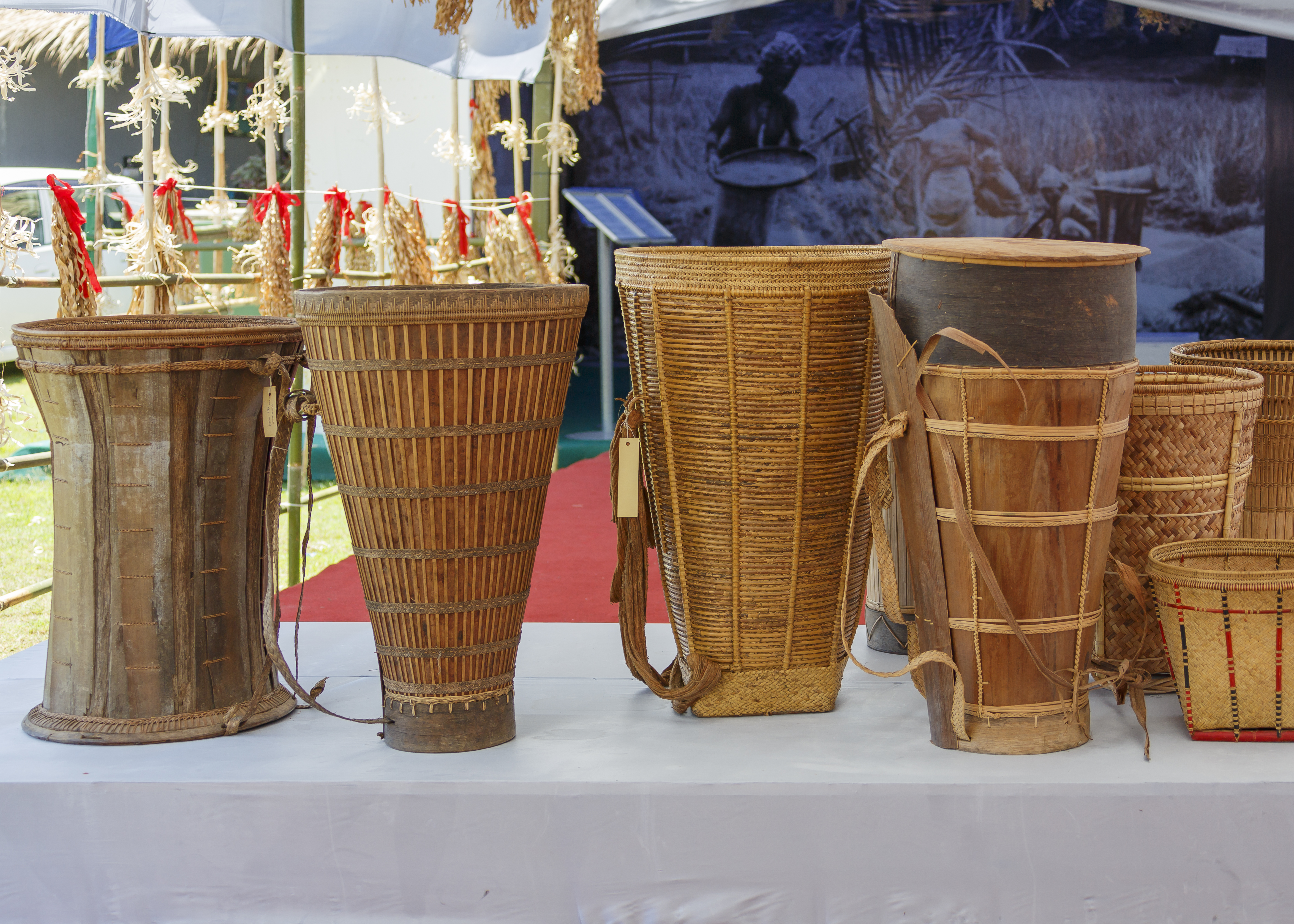 Penampang, Sabah: A collection of traditional baskets, made by members of different Dusun communities, presented during Kaamatan 2014